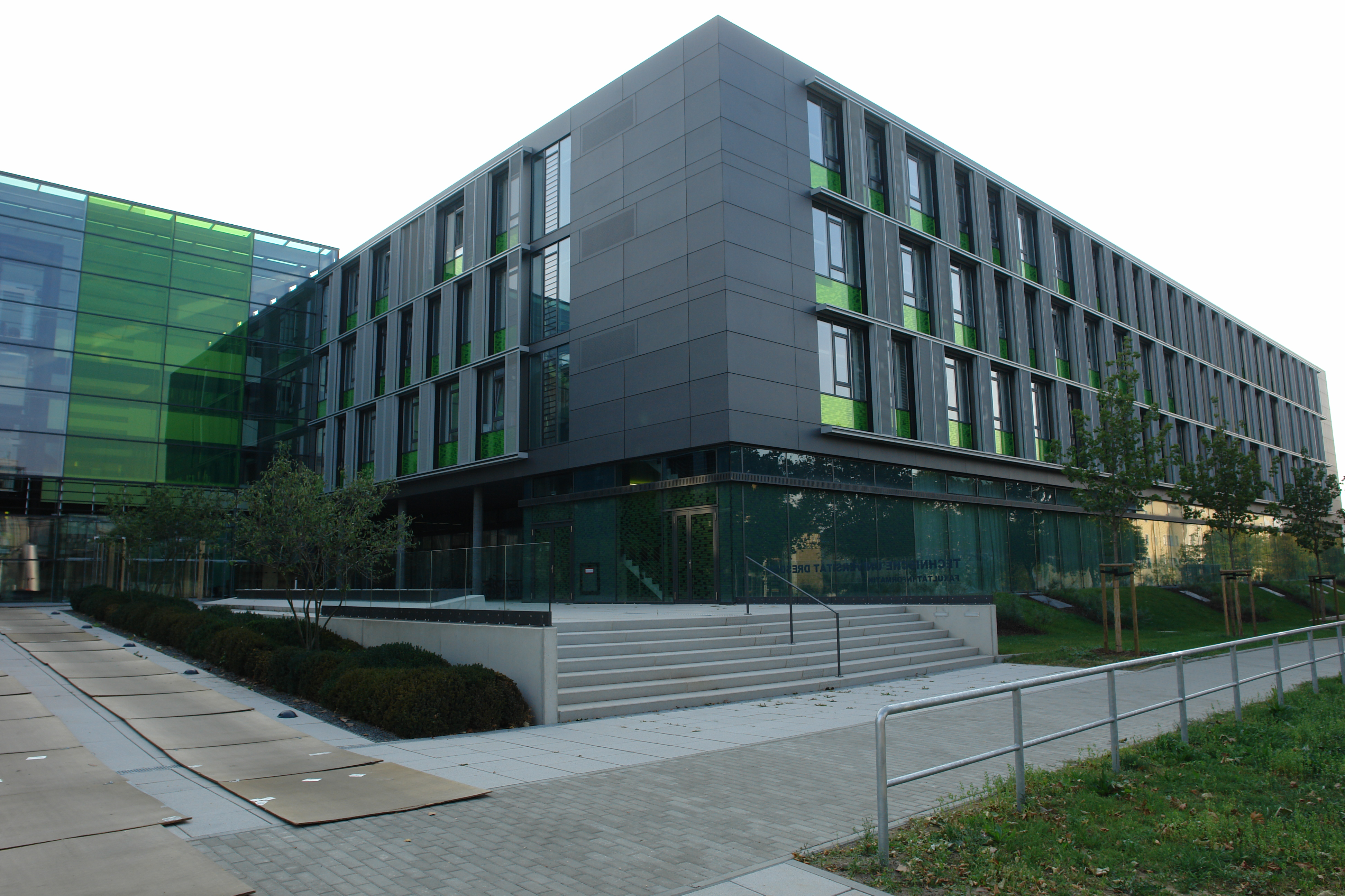 New building of the Faculty of Computer Science of the Technische Universität Dresden (Dresden University of Technology), Germany.